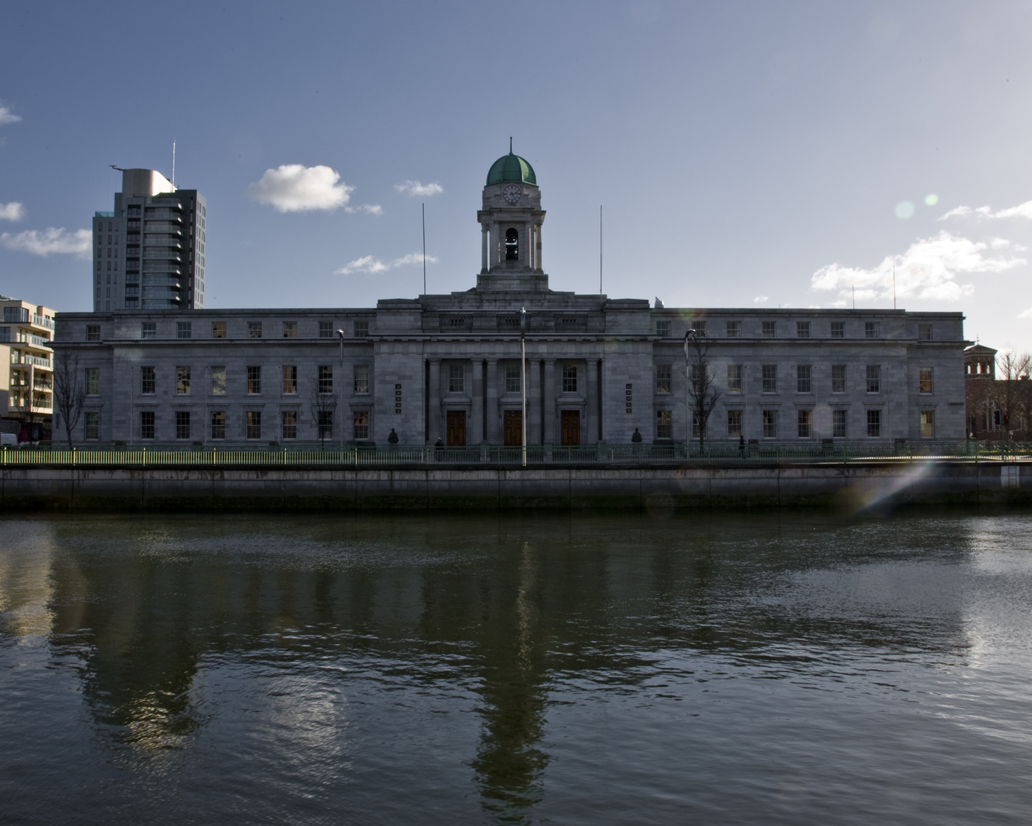 Cork City Hall in Cork, Ireland. The Elysian Tower, The Republic of Ireland's tallest building, can be seen in the background on the left.